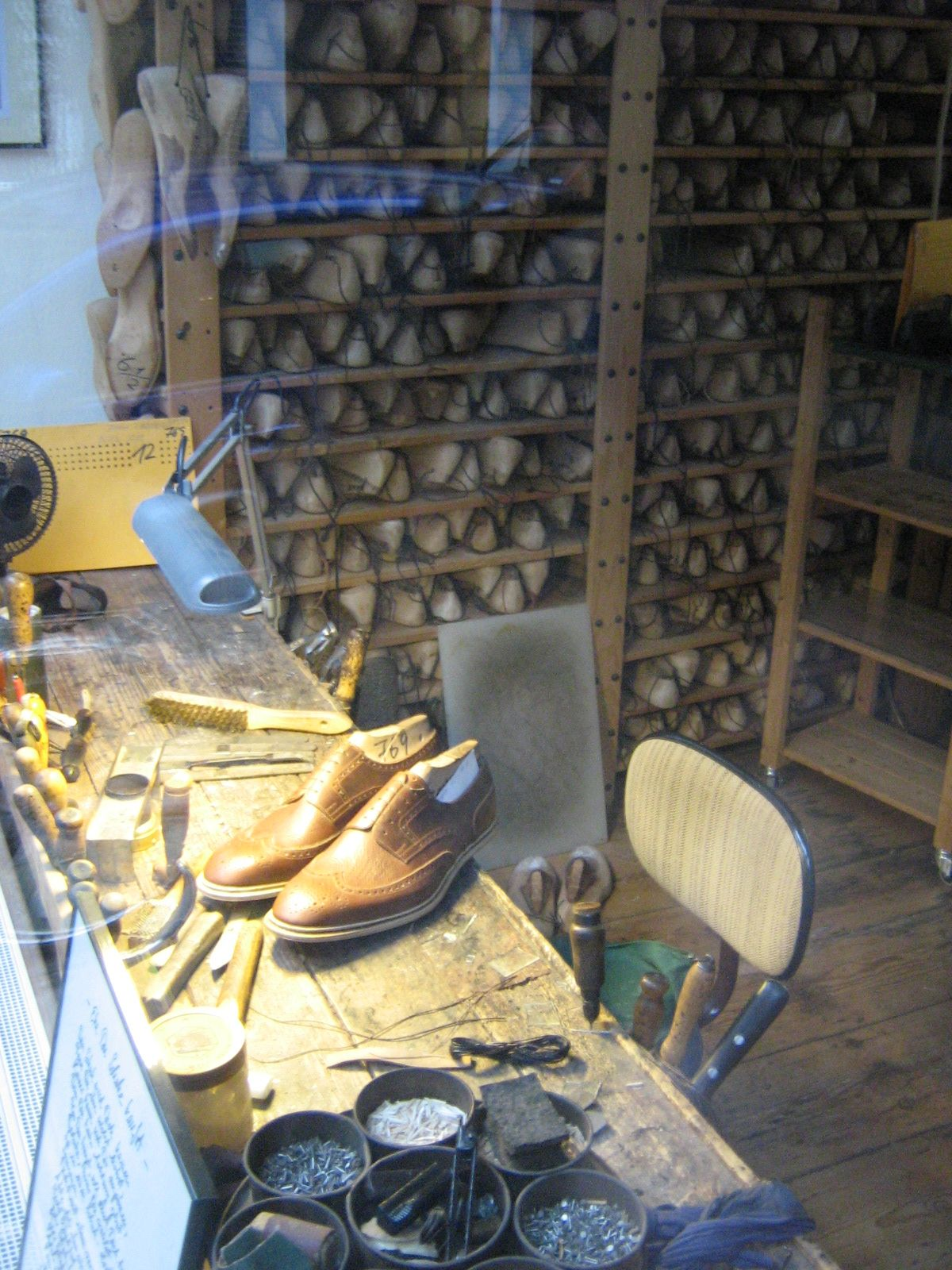 A cobwainer's desk in Hamburg, Germany - in the background a shelf with lasts